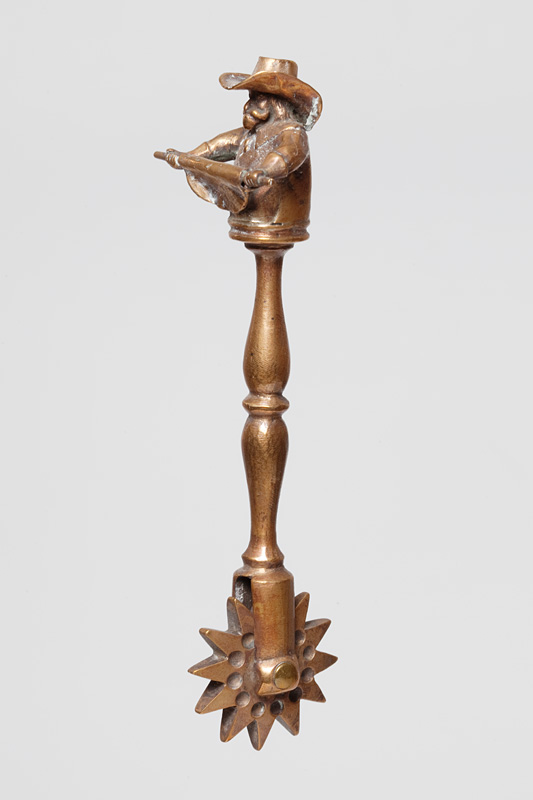 Matzo dough roller, dated between 1840 and 1860, Jewish Museum of Switzerland